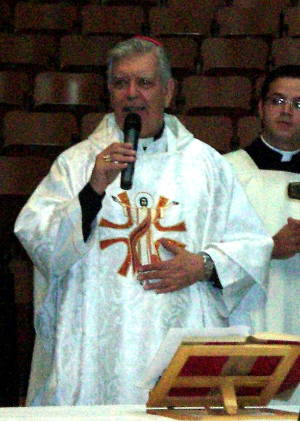 Cardinal Jorge Liberato Urosa Savino at the Simón Bolívar University.